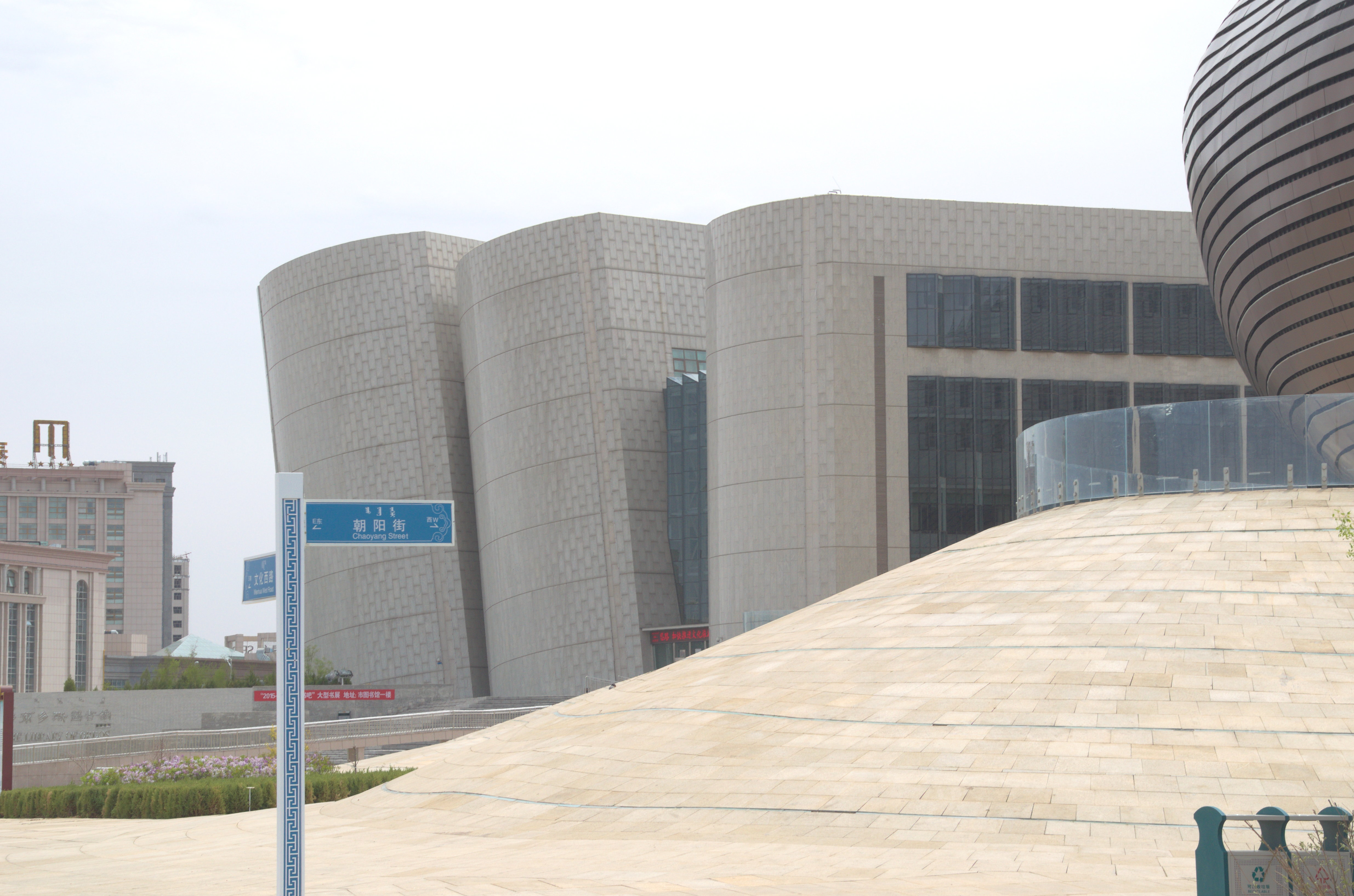 New Ordos City Library, in Kang Bashi new district, à Ordos City, Inner Mongolia, China.